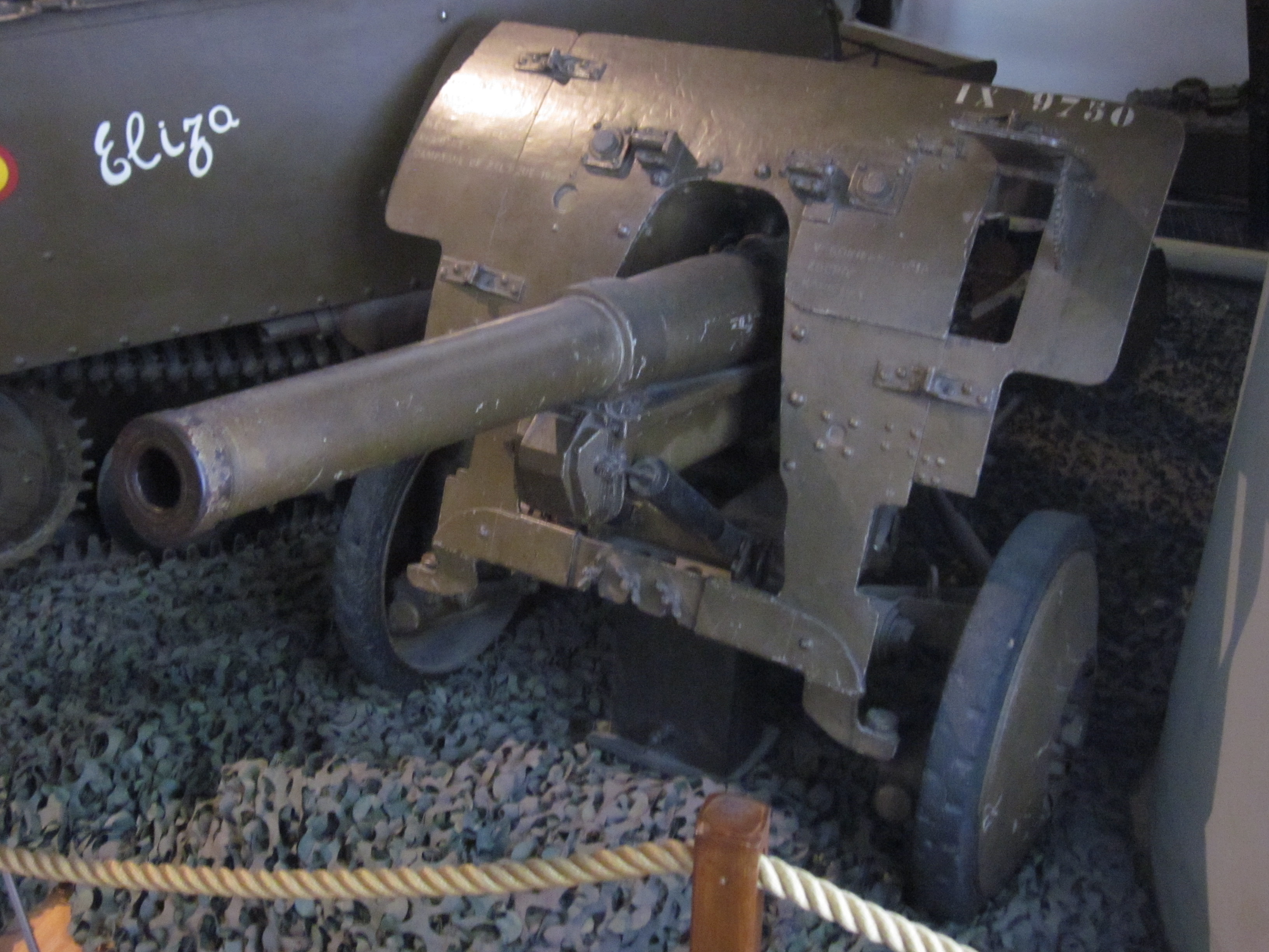 Belgian 47mm Anti-Tank gun. From the Royal Museum of the Army and Military History, Brussels.